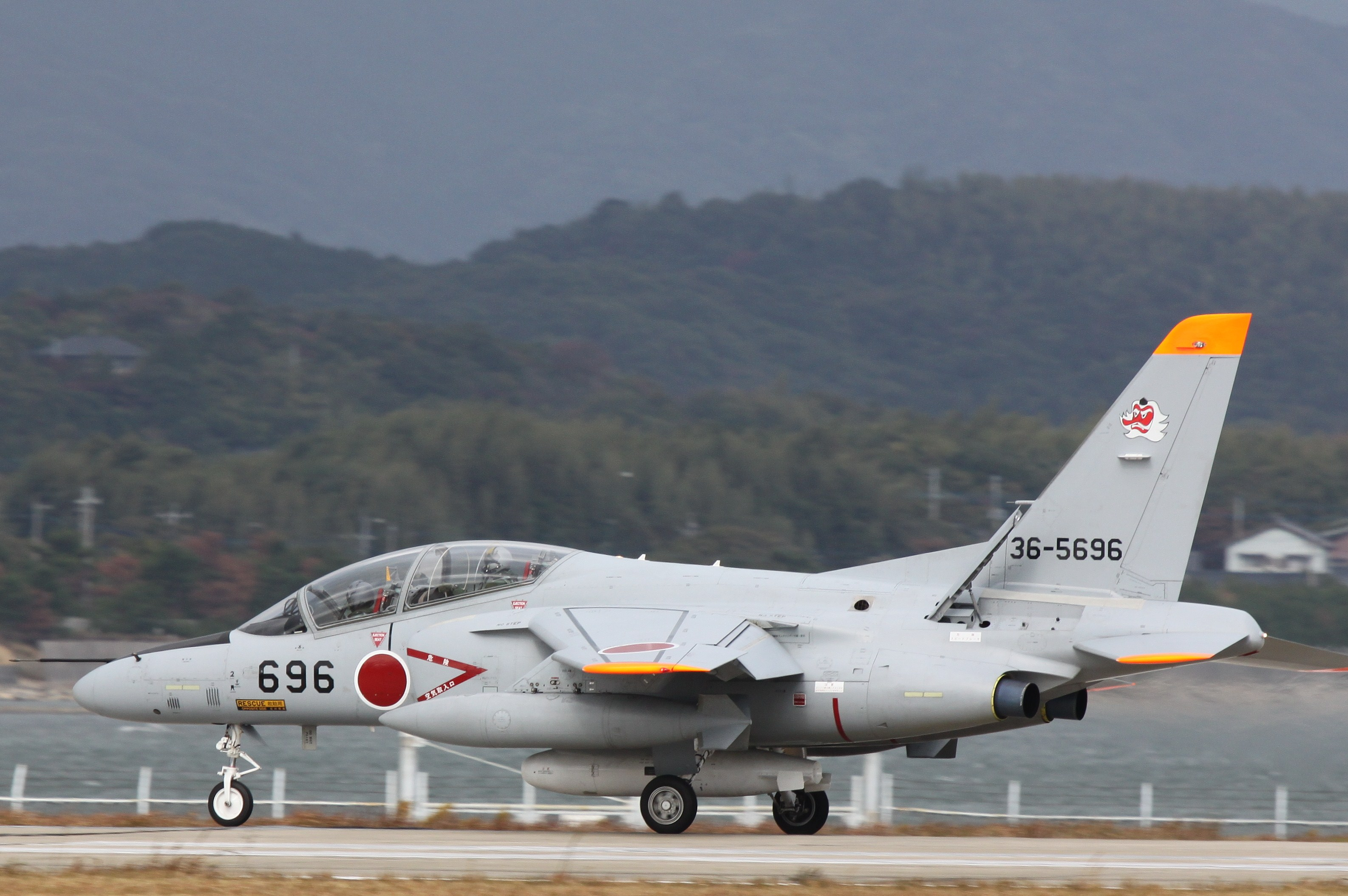 Nearly all fighter units have up to six of these trainers assigned.